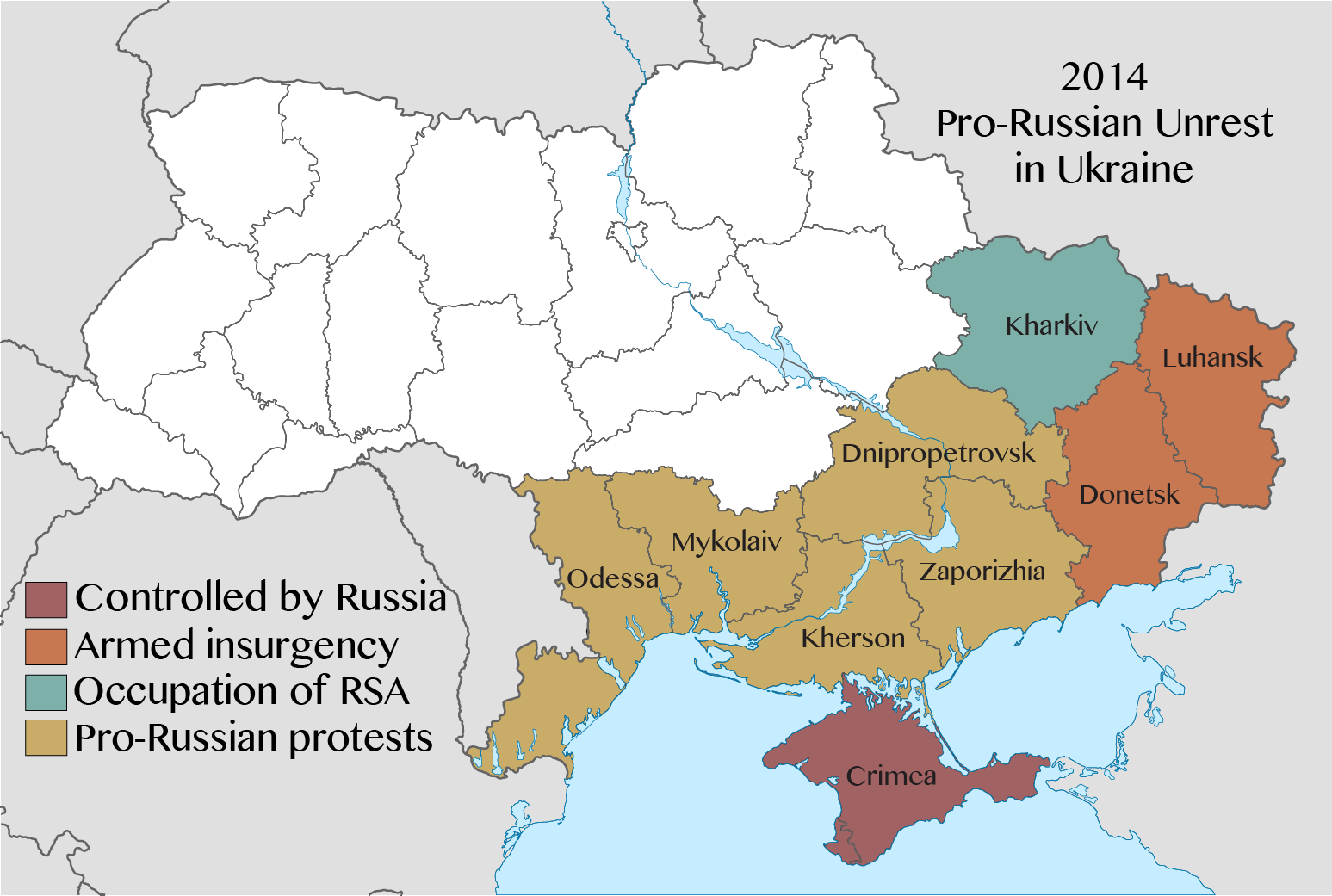 A map of the 2014 pro-Russian protests and unrest in Ukraine, by oblast. Severity of the unrest, at its peak, is indicated by the colouring. 'RSA' indicates 'Regional State Administration', the name for the governments of the oblasts (regions) of Ukraine.